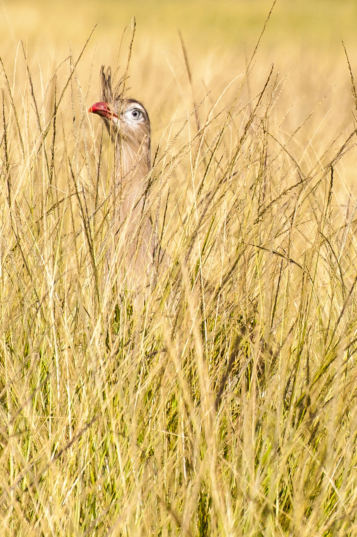 se protegendo dos predadores com a camuflagem